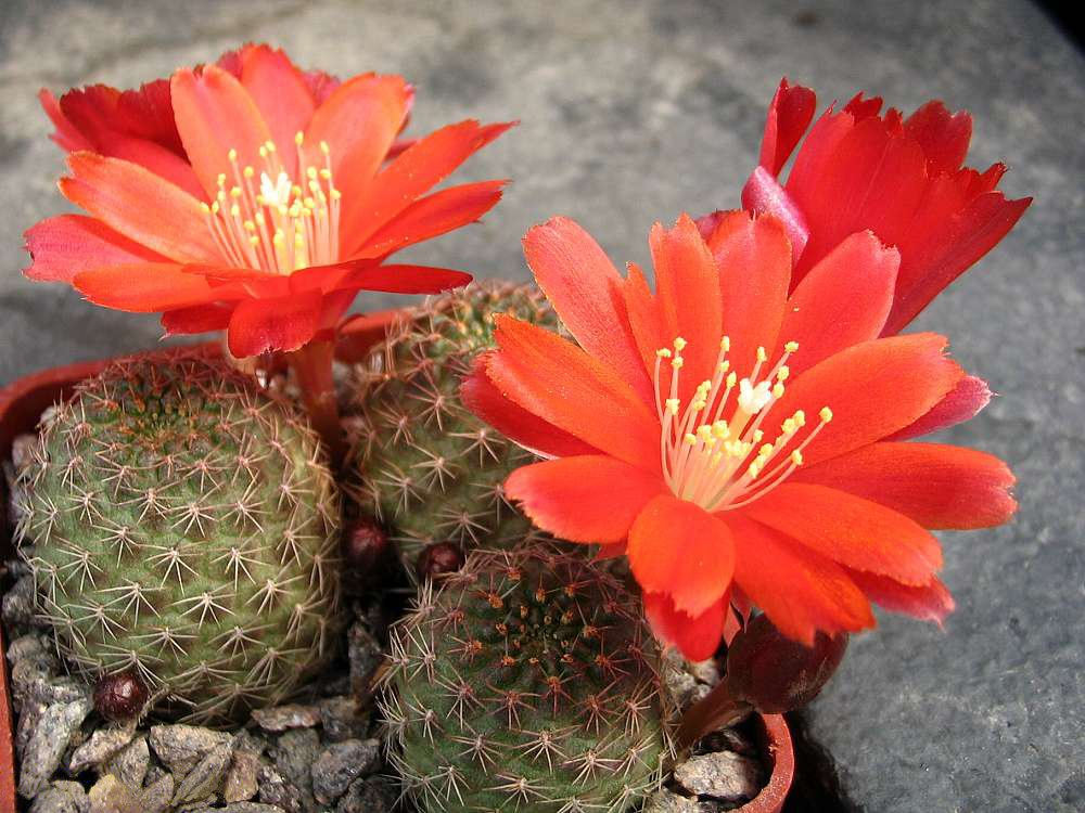 Rebutia deminuta (Rebutia vulpina) - cultivated plant marked SE70 (the collection of RNDr. V. Seda).